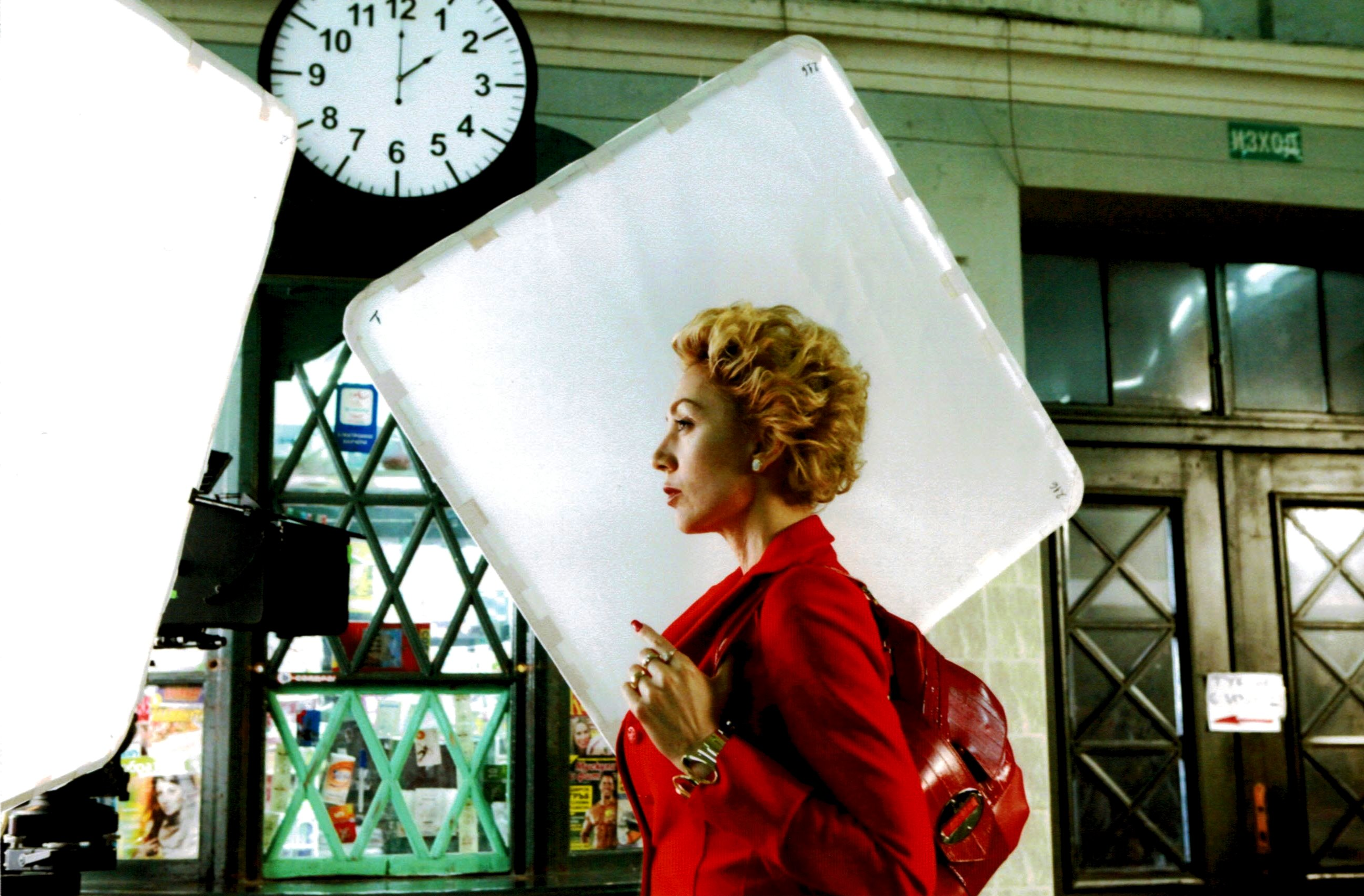 Michelle Bonev in Goodbye Mama